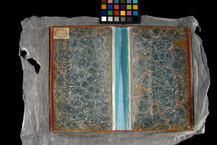 The original leather covering was supported on the inside of the spine with Japanese paper. The uppermost layer was tinted blue to help the next generation of conservators. Should future generations of conservators ever need to disbind the book again, the blue paper marks where their knife should aim. The marbled paper inside the front and back covers was lifted to expose the board beneath.